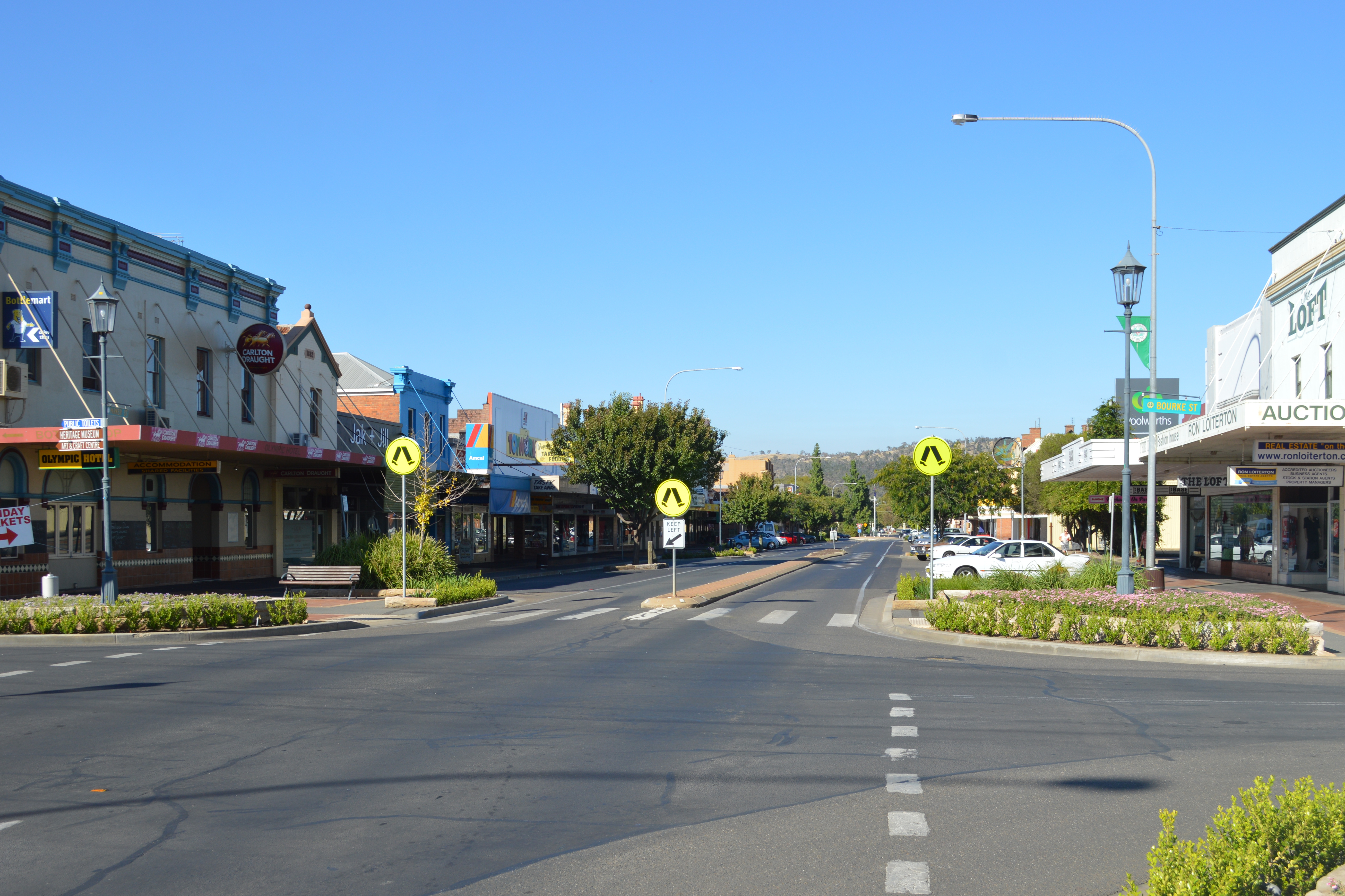 Parker St, the main street of Cootamundra, New South Wales